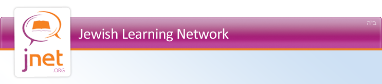 Logo of .